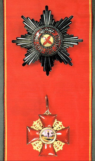 Order of St. Anna, 1st degree